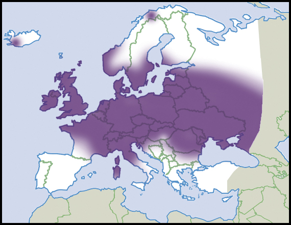 Aegopinella pura (Alder, 1830). Distributional range in Europe, scientific state of knowledge of 2012. Source description in English. Light colour indicated rare occurrences or regions where the species could eventually be expected to occur. Dark colour indicated relatively reliable occurrences, as well as regions where the species was expected to occur, and where the species was not known to be extremely rare. Dark colour indications were not necessarily based on published records Species summary in AnimalBase